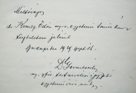 László Gerentsér (1873-1942), Hungarian fencing master and writer